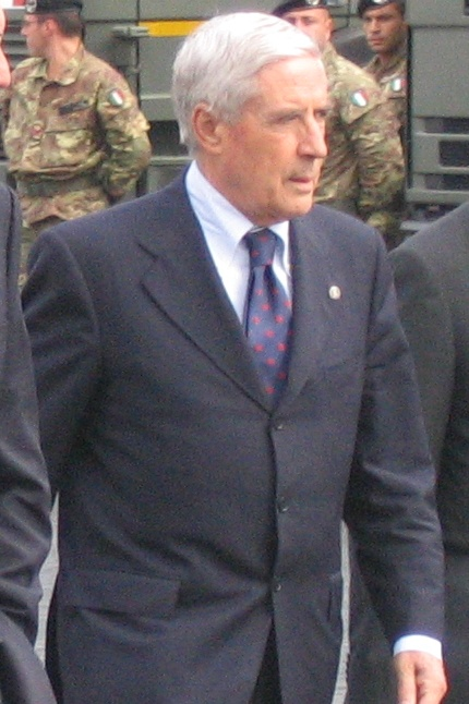 Franco Marini, Speaker of the Italian Senate